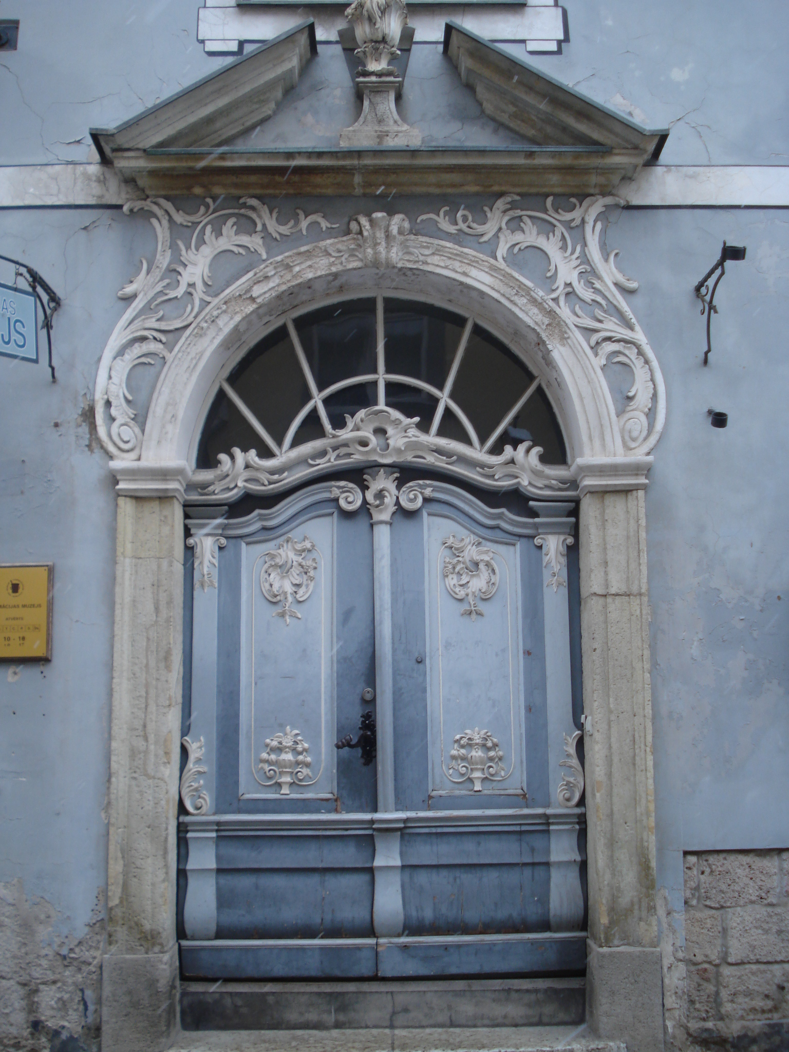 Museum of Pharmacy. Riharda Vāgnera 13, Riga